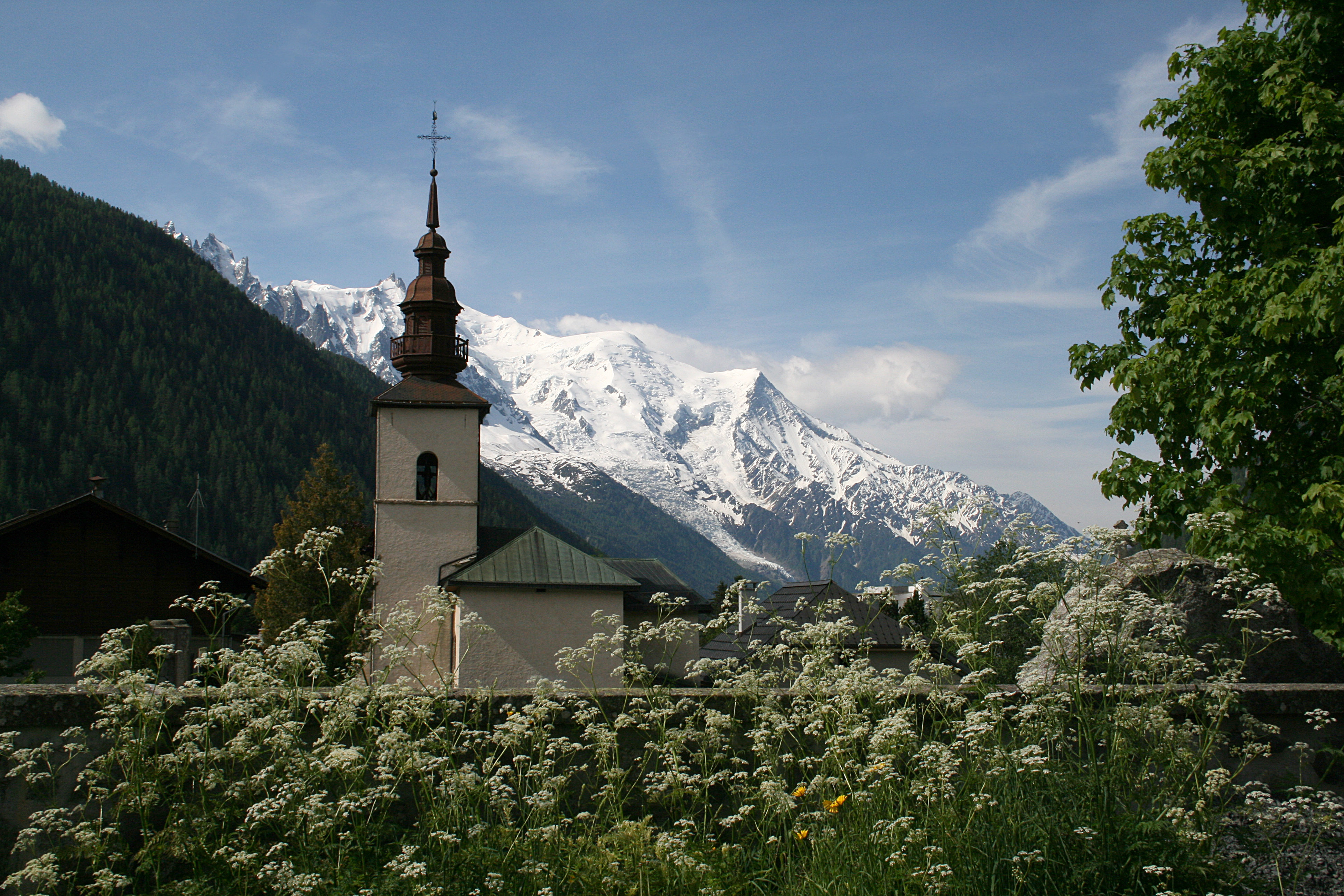 Argentière (Haute-Savoie - France), the neighborhood of the church and Mont Blanc.